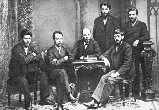 A meeting of the St. Petersburg chapter of the Union of Struggle for the Liberation of the Working Class in February 1897. Shortly after the picture was taken the whole group was arrested by the Okhrana. The photograph was altered later : Alexander Malchenko has been edited out. From left to right (standing) : P. K. Zaporozhets, A. A. Vaneyev. (sitting) : Victor V. Starkov, Gleb Krzhizhanovsky, Vladimir Lenin and Julius Martov. Saint Petersburg, 1897